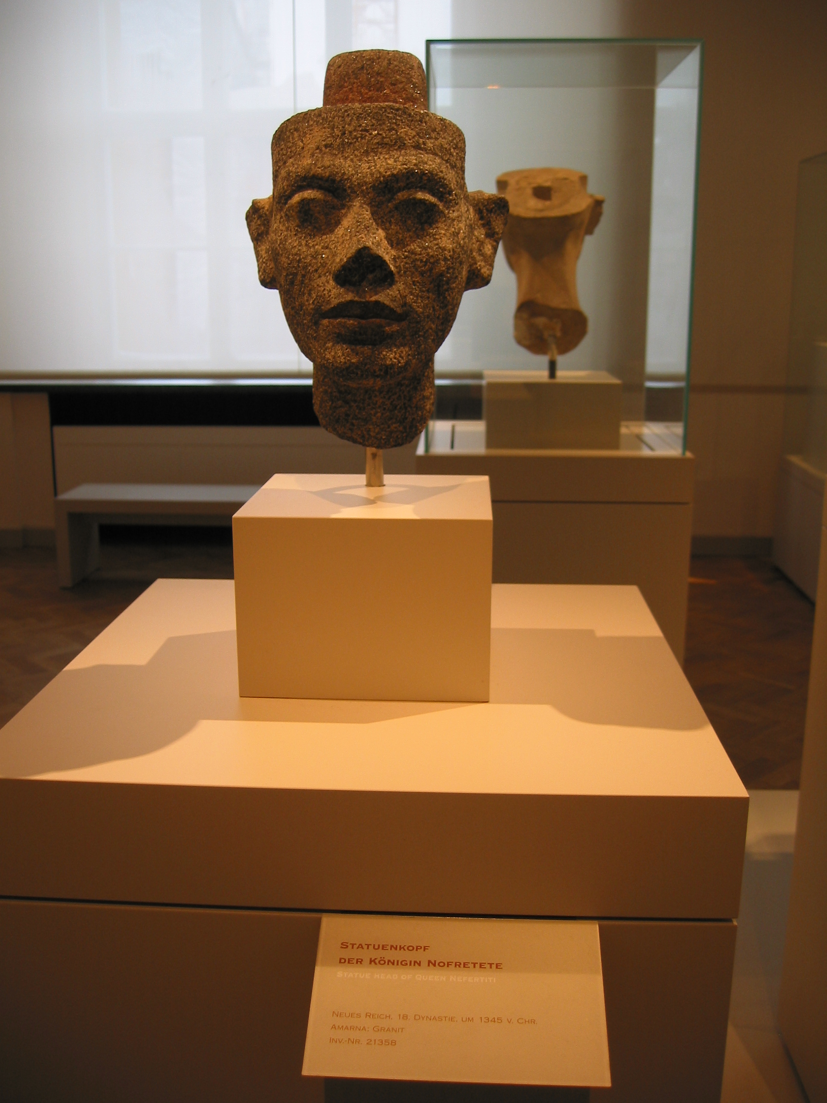 Object in the Ägyptisches Museum Berlin (Egyptian museum, building of the New Museum), Berlin.